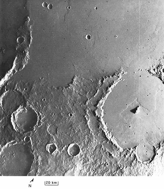 Pickering crater, on Mars. This is a figure on p.54 of NASA SP-441: VIKING ORBITER VIEWS OF MARS, which has the following caption: Extensive Lava Flows from Arsia Mons. The flows that erupted from Arsia Mons extend some 1500 km away from the summit and bury the older cratered terrain of the southern hemisphere. Flow fronts are visible within the large crater Pickering (120-km-diameter) where they have been diverted around high ground associated with the central peak of the crater. Flows of this type associated with the big volcanoes may have lengths in excess of 1000 km and may resemble the large flows found in Mare Imbrium on the Moon. The discovery of these flows on the outer flanks of the major volcanoes on Mars has shown that the basal diameter of many of these volcanoes is considerably larger than was suspected from Mariner 9 data. 56A12; 34°S 133°W